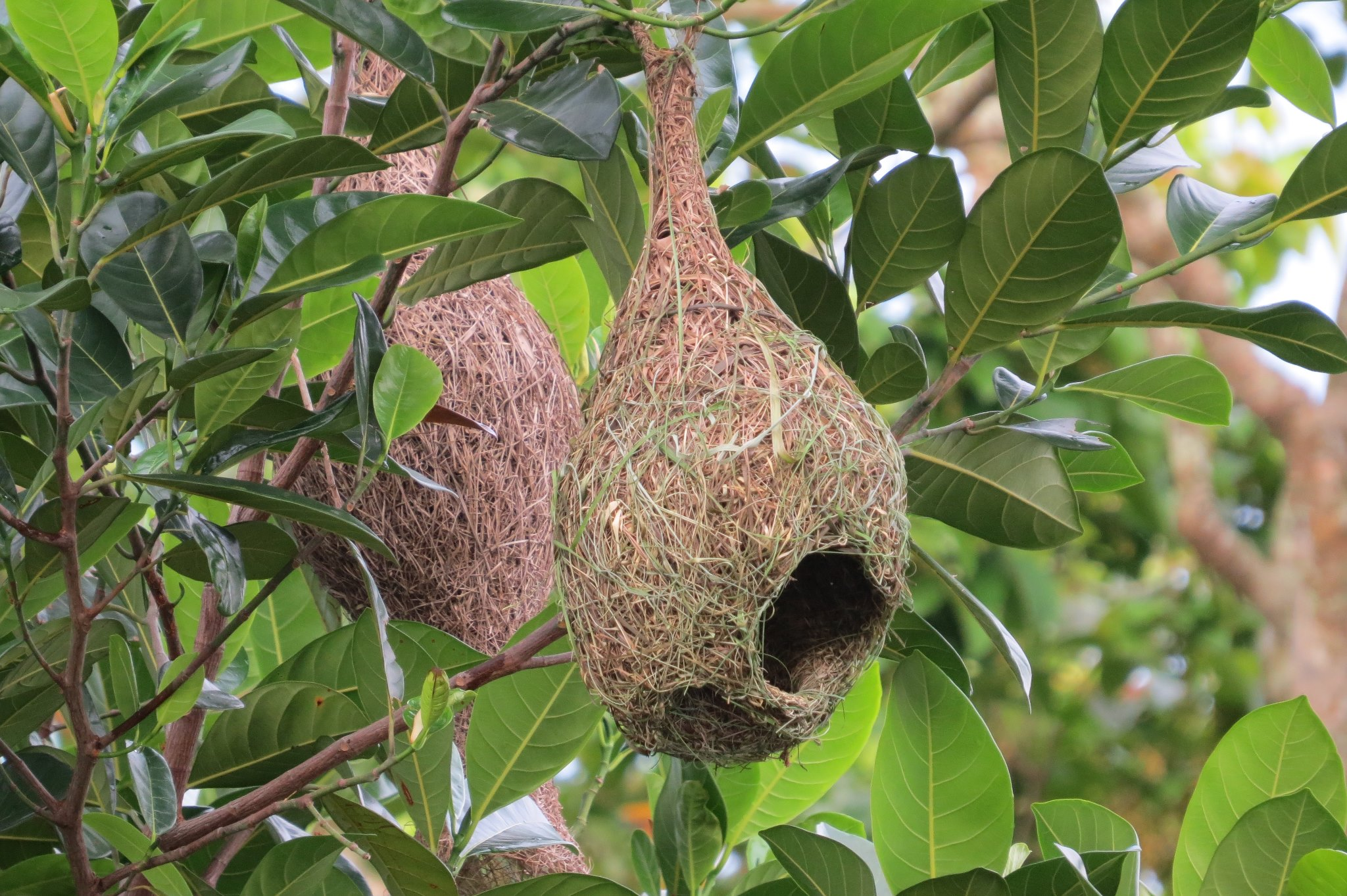 A weaver nest in Malaysia